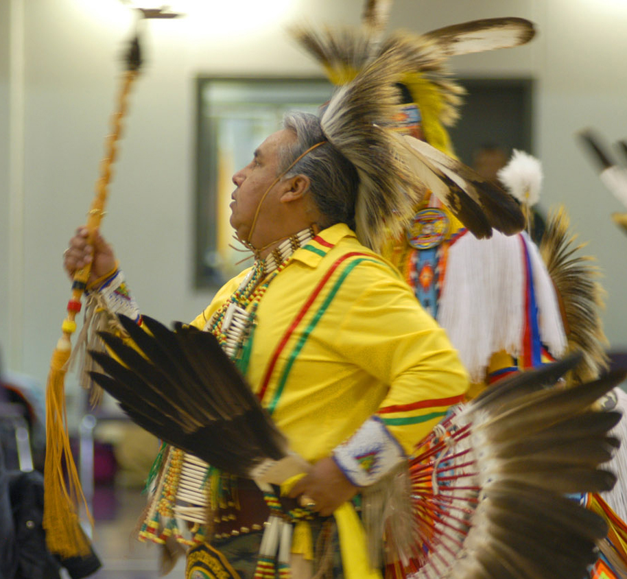 Richard Barea, a tribal dancer from the Omaha Tribe, performes in authentic tribal dress as part of the Native American Heritage Observance month culture fair held at the Lied Activity Center in Bellevue, Neb., on Nov. 15, 2006.